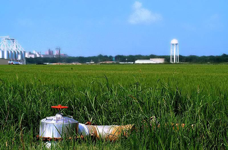 Stuttgart, Arkansas — photo by ngythanh, date: 7-1-2006